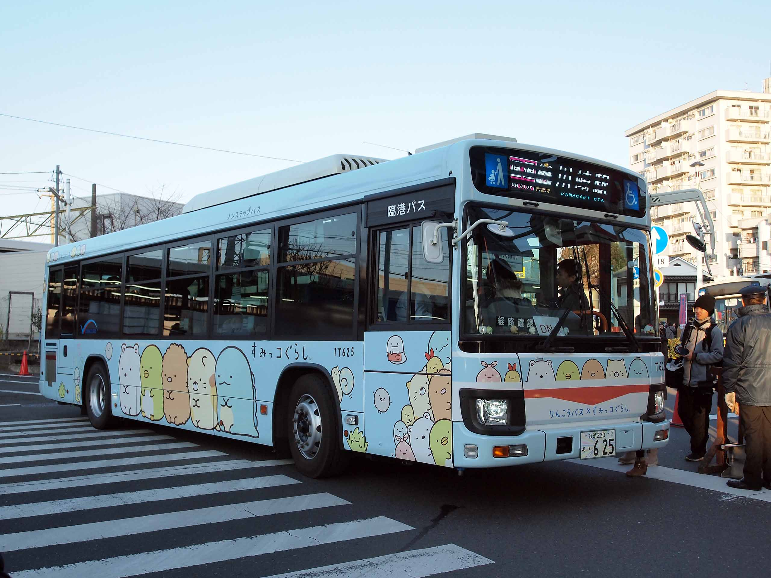 Fleet of Kawasaki Tsurumi Rinko Bus, wrapped Sumikkogurashi charactors. Model: Isuzu Erga LV290 License plate: KNY230 A0625 Place: Kawasaki-daishi Station